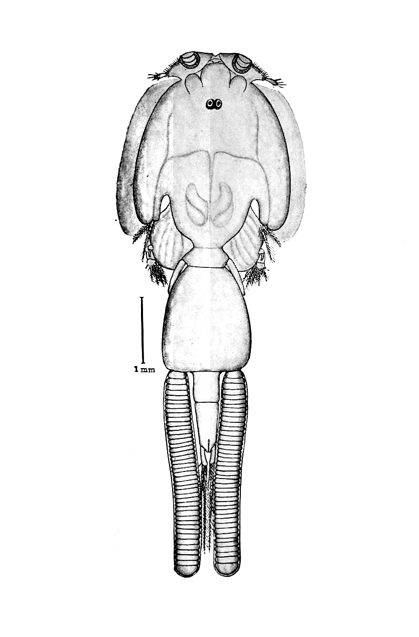 Ovigerous female of parasitic copepod Caligus chelifer (Siphonostomatoida: Caligidae).